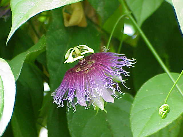 Species: Passiflora serratifolia Family: Passifloraceae Image No. 2